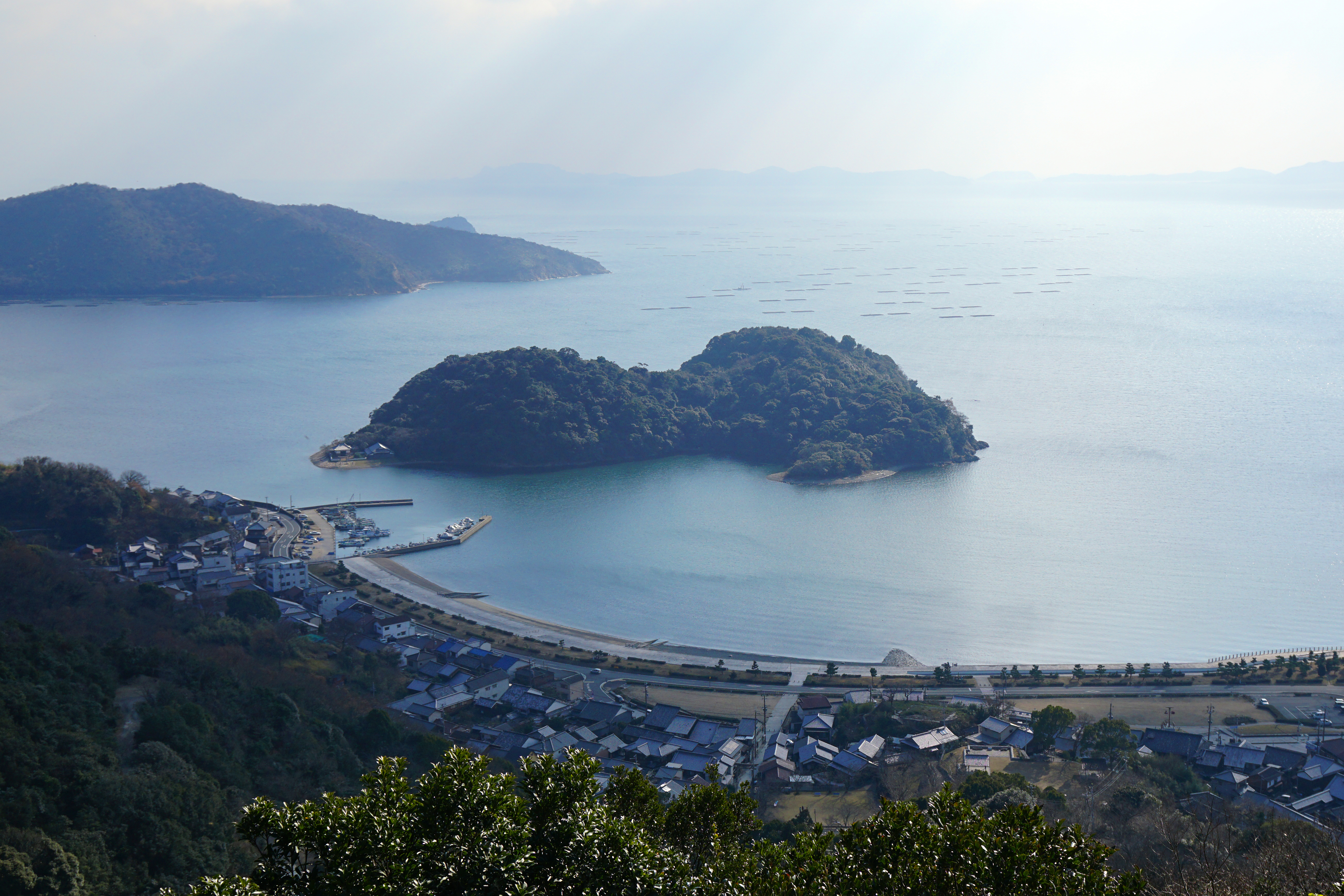 Ikishima and Sakoshi Harbor view from Chausuyama Castle in Ako, Hyogo prefecture, Japan